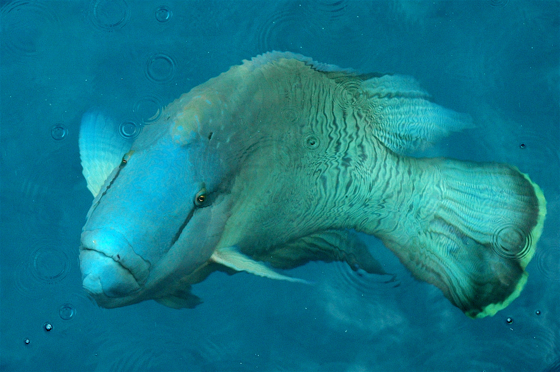 A Humphead wrasse Cheilinus undulatus on the Great Barrier Reef breaching the water surface. 'Big Fish' Large On Black